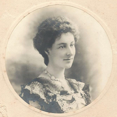 Marion Wallace Dunlop (22 December 1864 – 12 September 1942) was a noted artist and author. She was the first and one of the most well known British suffragettes to go on hunger strike, on 5 July 1909, after being arrested in July 1909 for militancy.[1] She was at the centre of the Women's Social and Political Union who campaigned by Emmeline Pankhurst to be remembered. She was one of her pallbearers and she looked after Emmeline's adopted daughter.